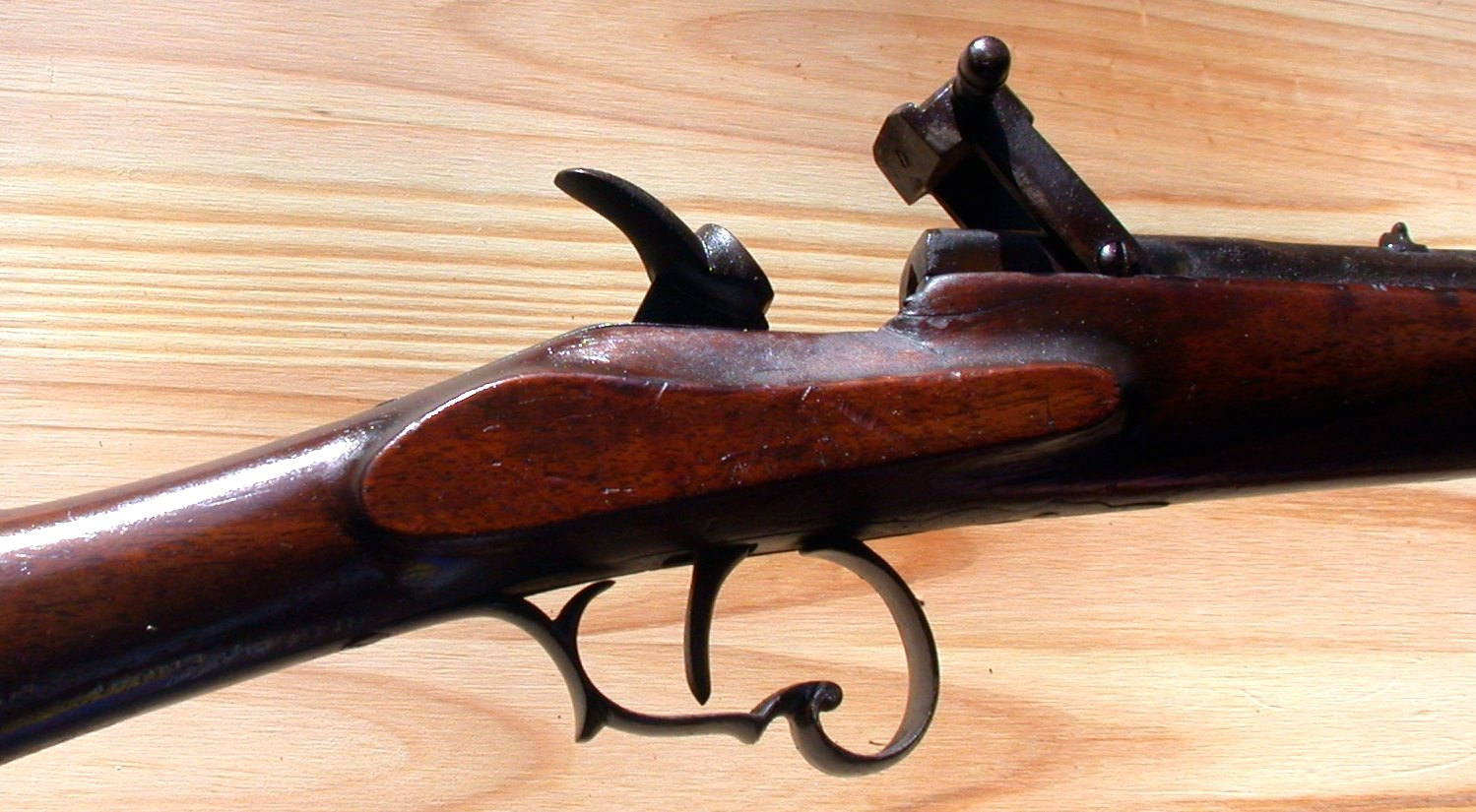 Flobert rifle, action open